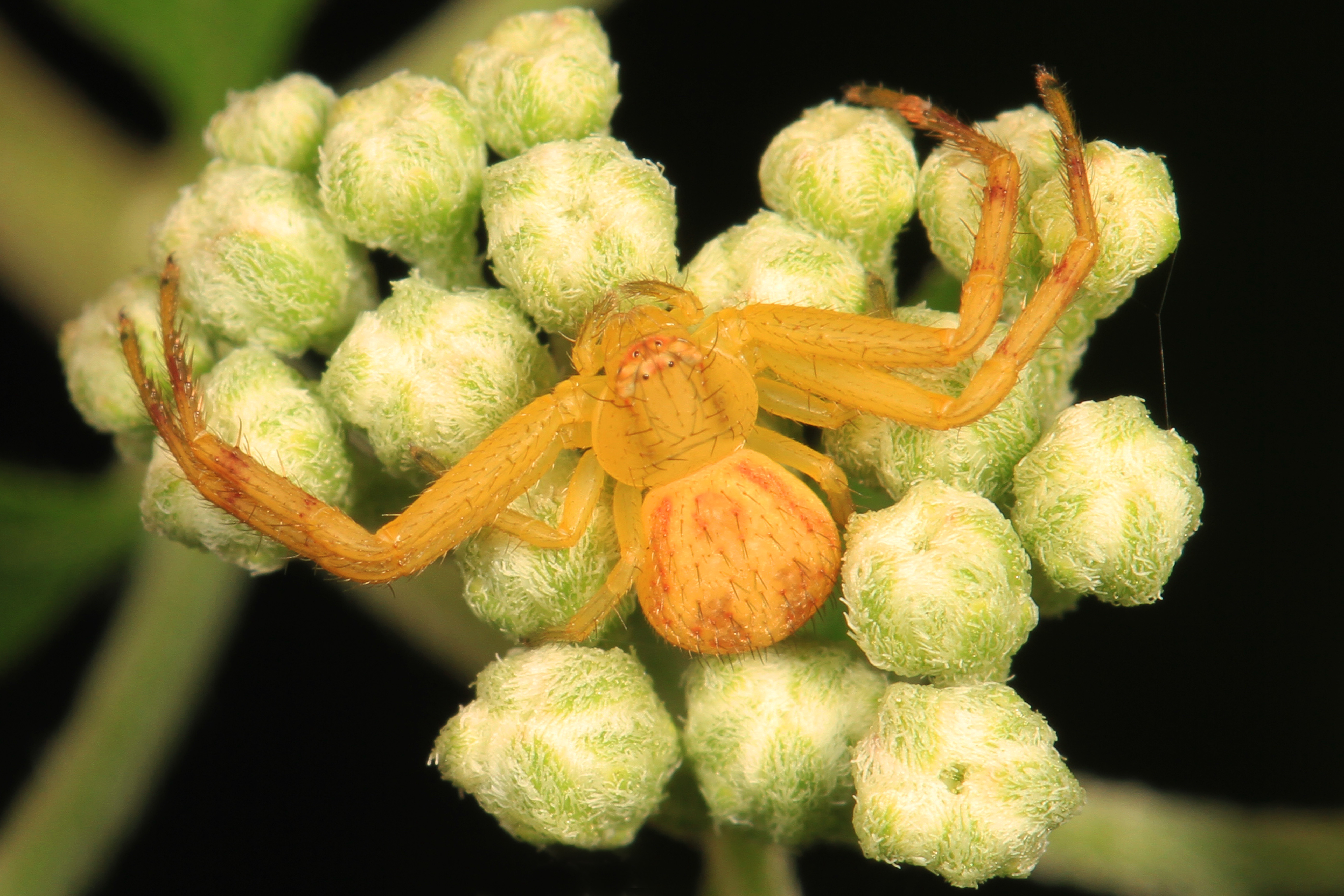 Northern Crab Spider - Mecaphesa asperata, Meadowood Farm SRMA, Mason Neck, Virginia